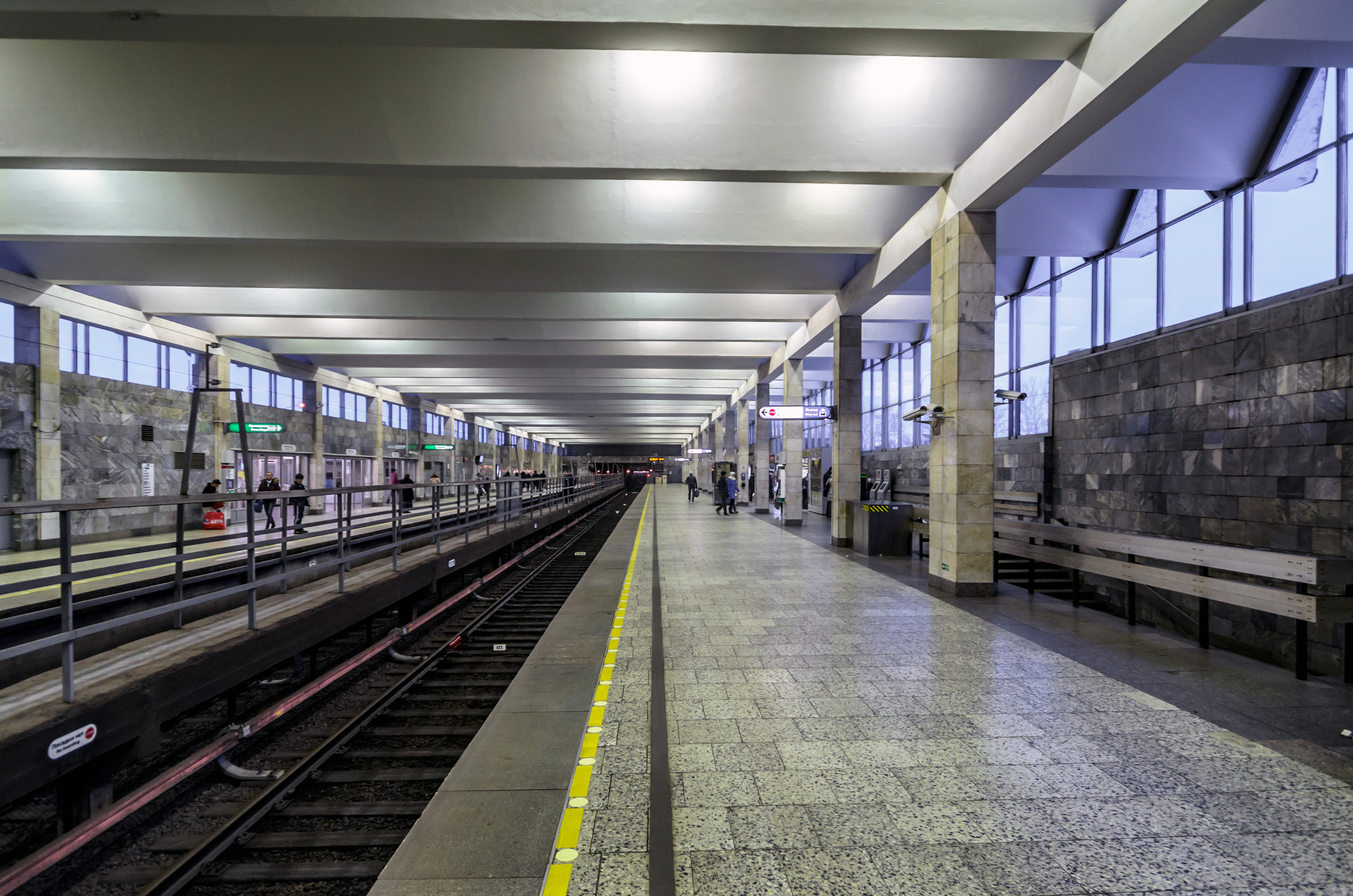 Rybatskoe station of Saint Petersburg Metro